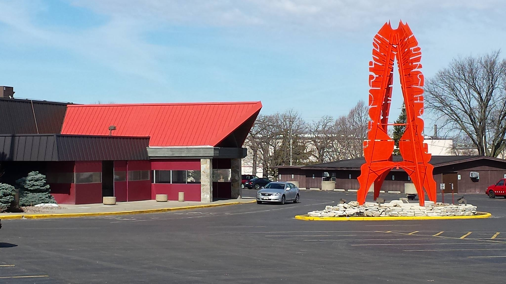 Entrance to the Fireside Theater with its symbolic "Flame of Friendship" stands nearby to welcome guests.